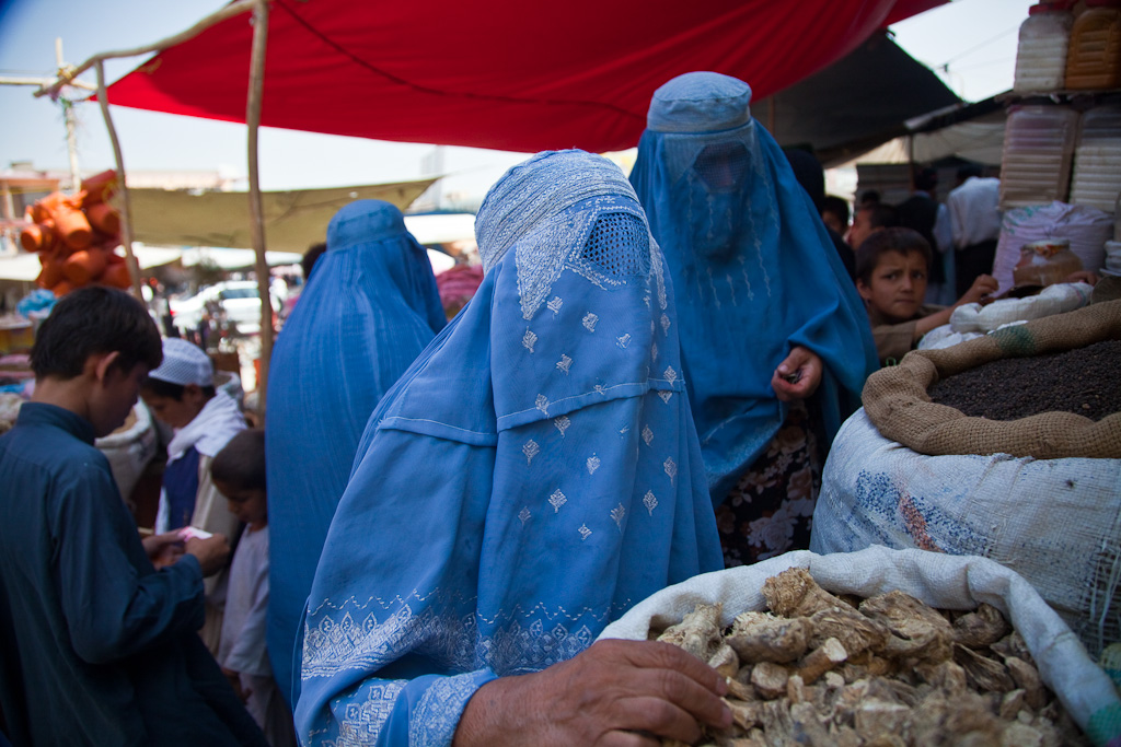 Burqa clad women bying at a market (Afghanistan)